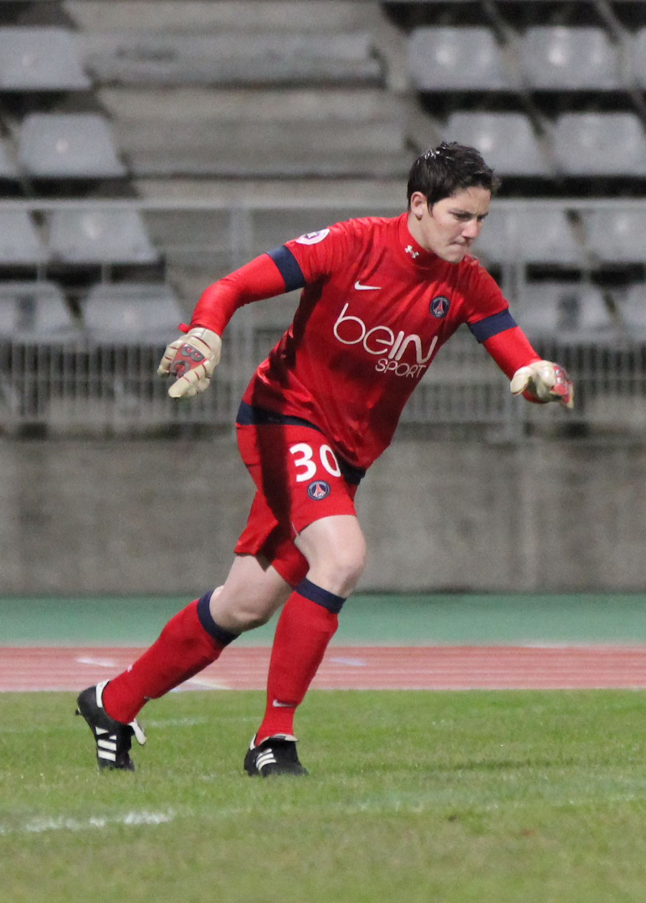 PSG-Juvisy, december 9th, 2012. PSG goalkeeper Véronique Pons takes a goal kick.